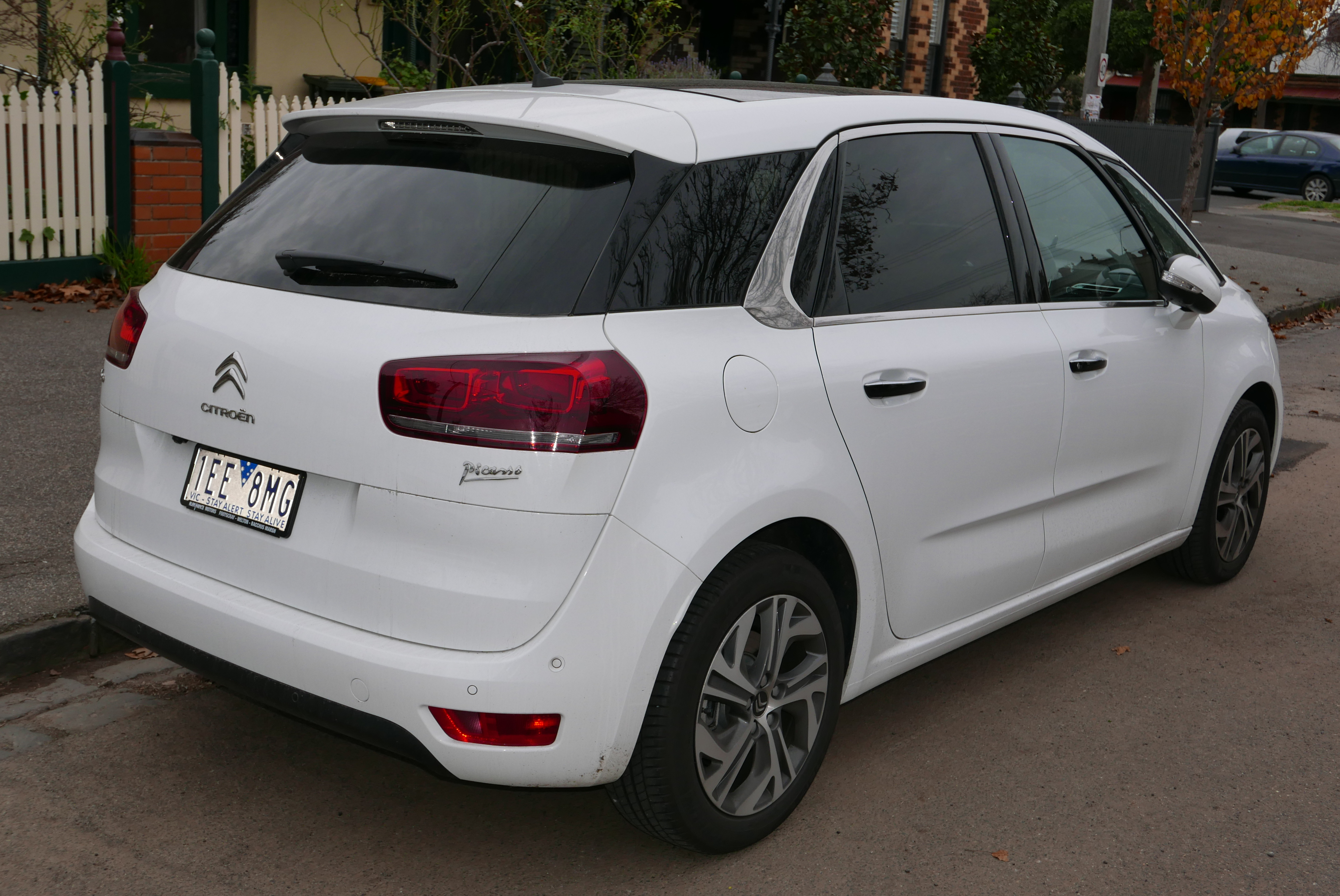 2015 Citroën C4 Picasso (B7 MY15) Exclusive e-THP wagon. Photographed in Fitzroy North, Victoria, Australia. Vehicle registration enquiry resultsJurisdictionVictoriaRegistration1EE8MGChassis codeVF73D5GZTEJ851133Engine codeFJCC2138130Compliance date2015-03Year of manufacture2015